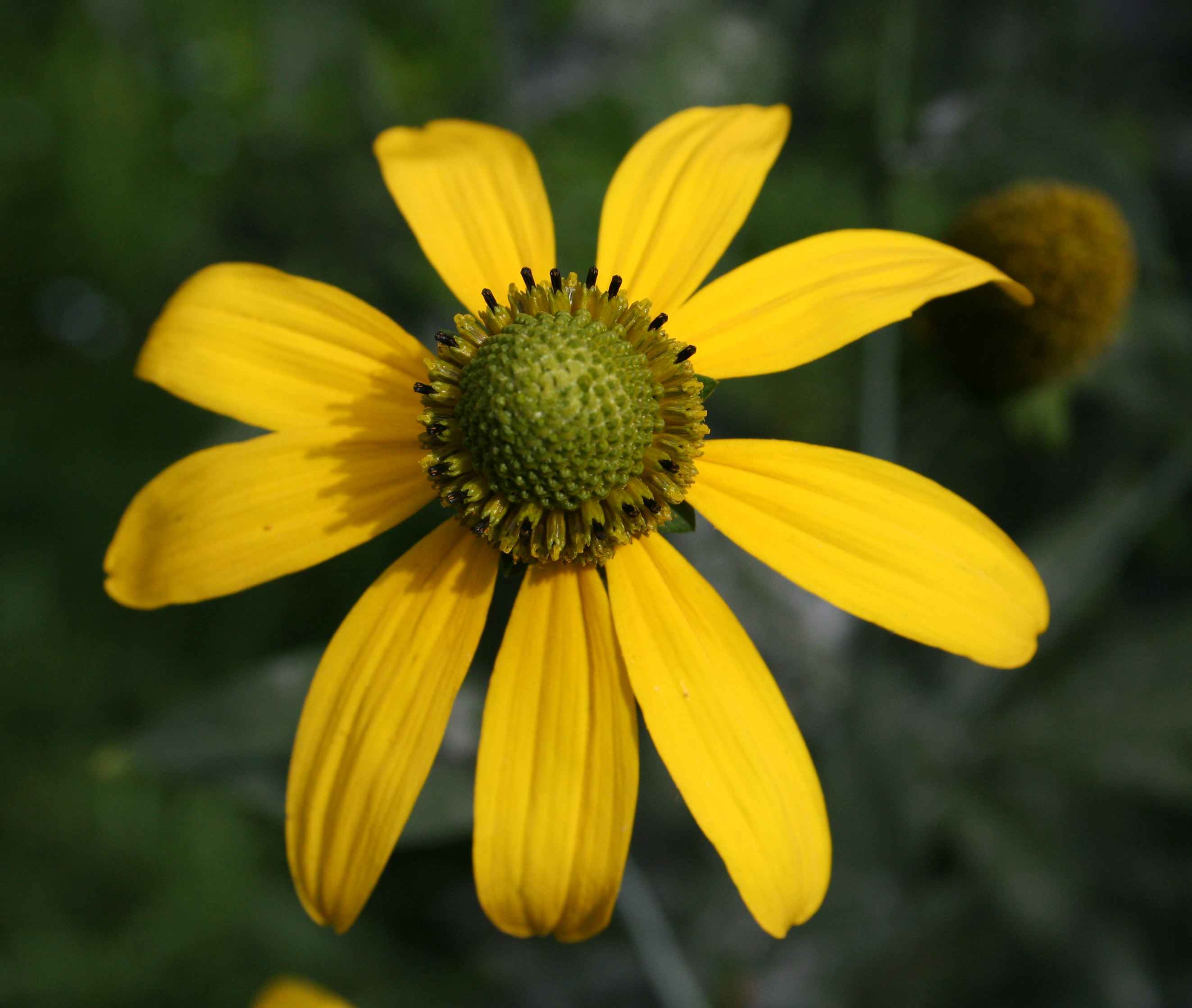 Rudbeckia laciniata